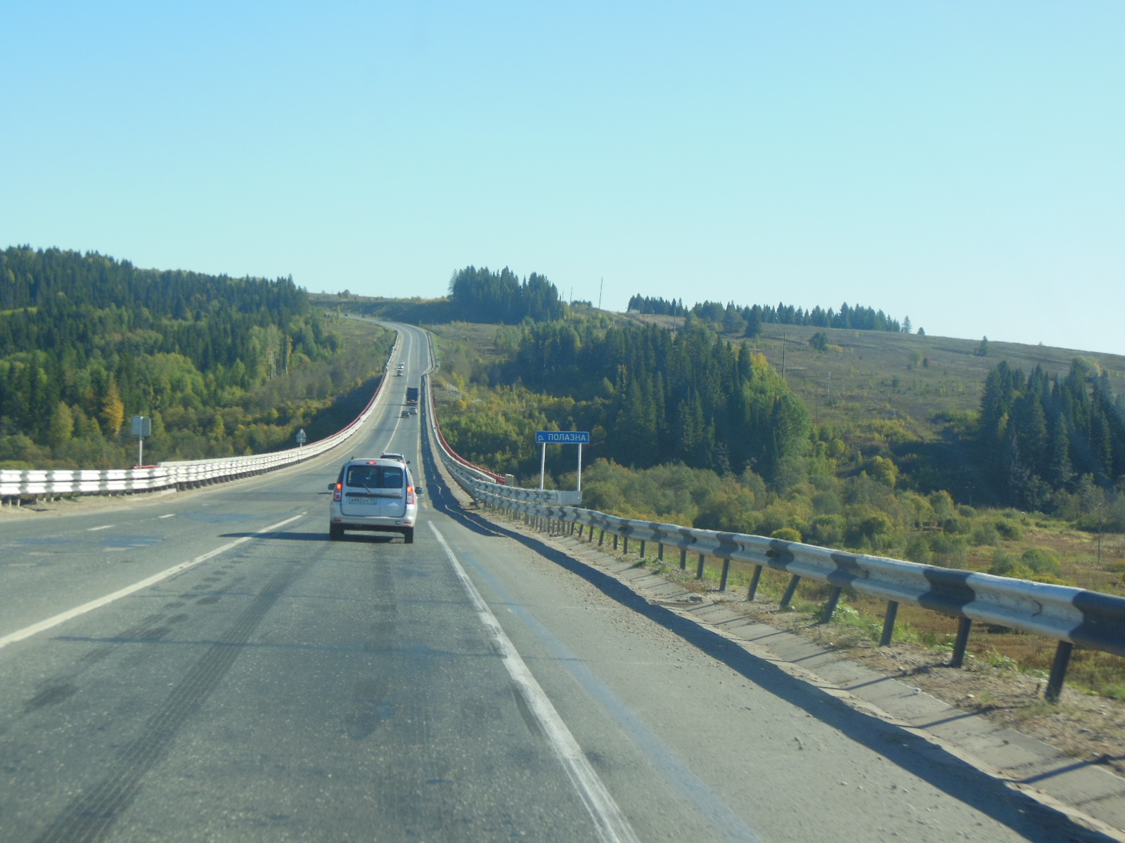 Bridge on the River Polazna.